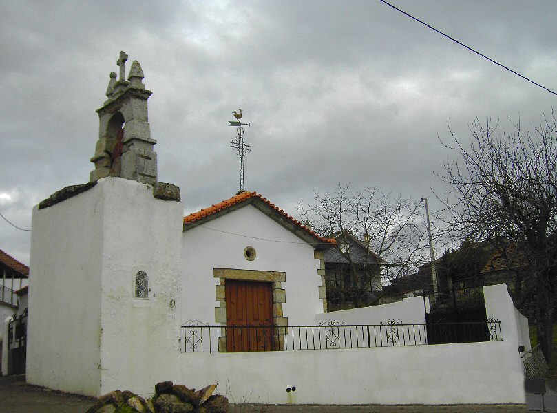 Chapel of the Vilar de Lomba